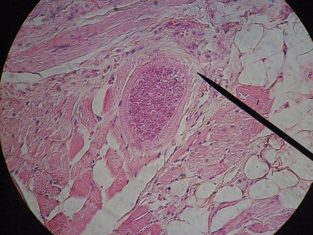 Sarcocystis sarcocysts within porcine skeletal muscle. Note the clearly defined striated border around the sarcocyst that helps differentiate it from Toxoplasma. The thin, black object in the right field is the microscope pointer.